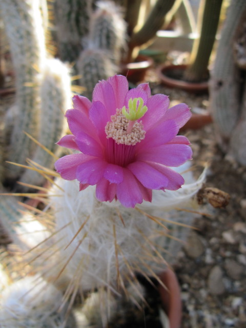 Oreocereus leucotrichus Common Name(s): Old Man of the Andes Synonym(s): Echinocactus leucotrichus, Arequipa leucotricha, Borzicactus leucotrichus, Oreocereus hendricksenianus, Borzicactus hendriksenianus